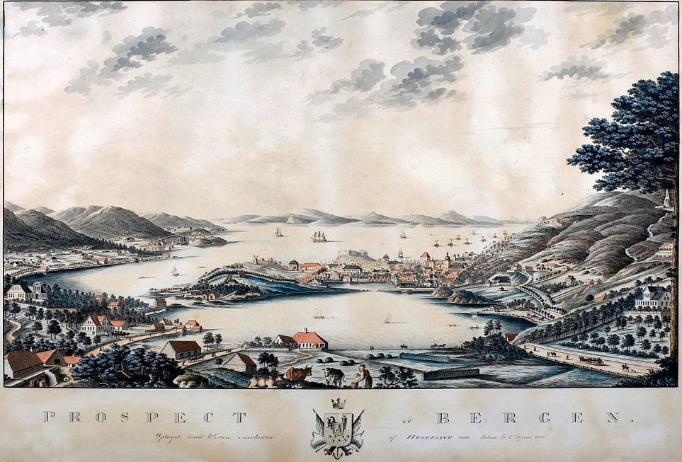 Prospect Af Bergen Optaget imod Westen i nerheden af Houkeland ved Johan Fr. L. Dreier 1831